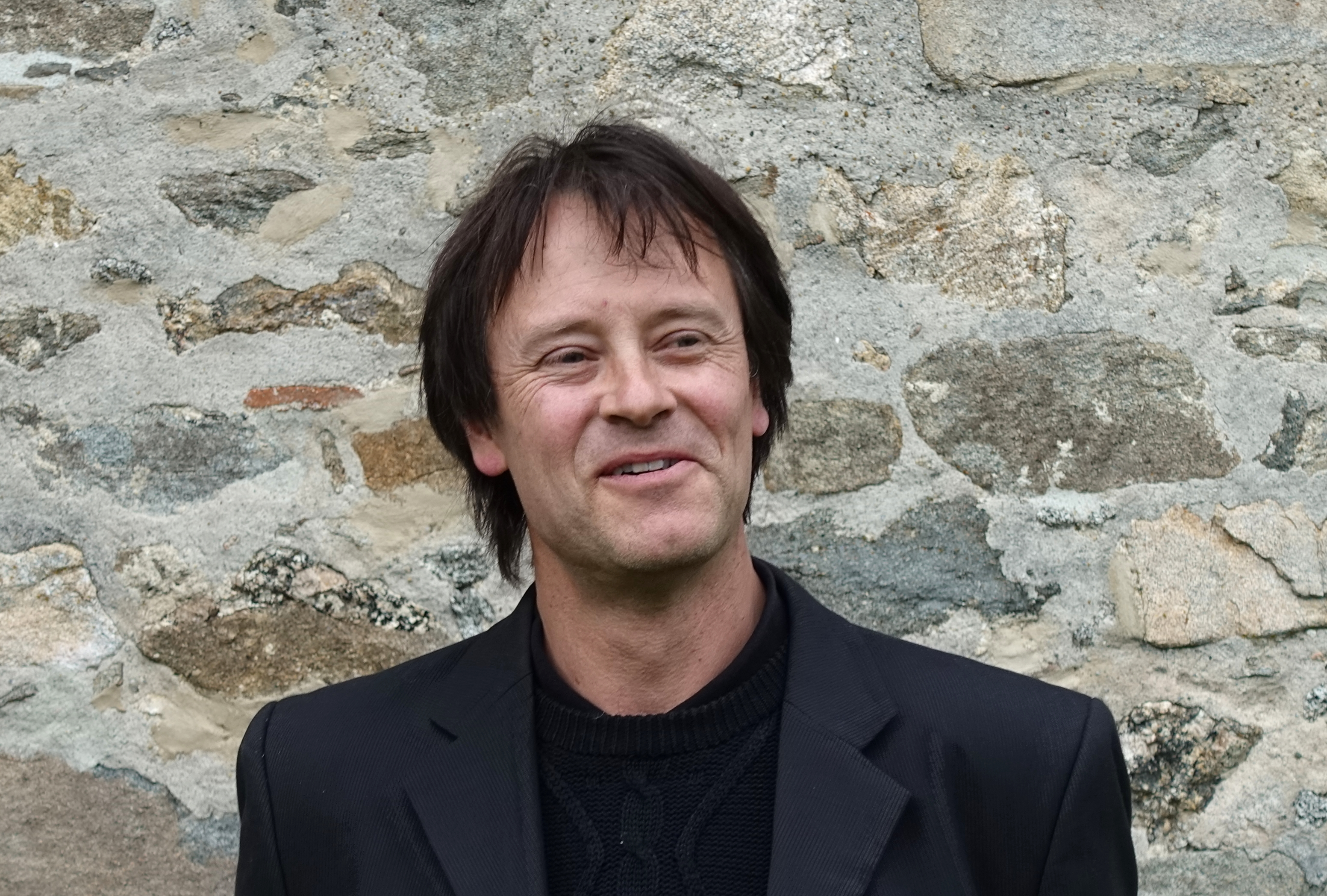 Landgänge 2017 at St. Peter bei Freistadt: Bernd Preinfalk